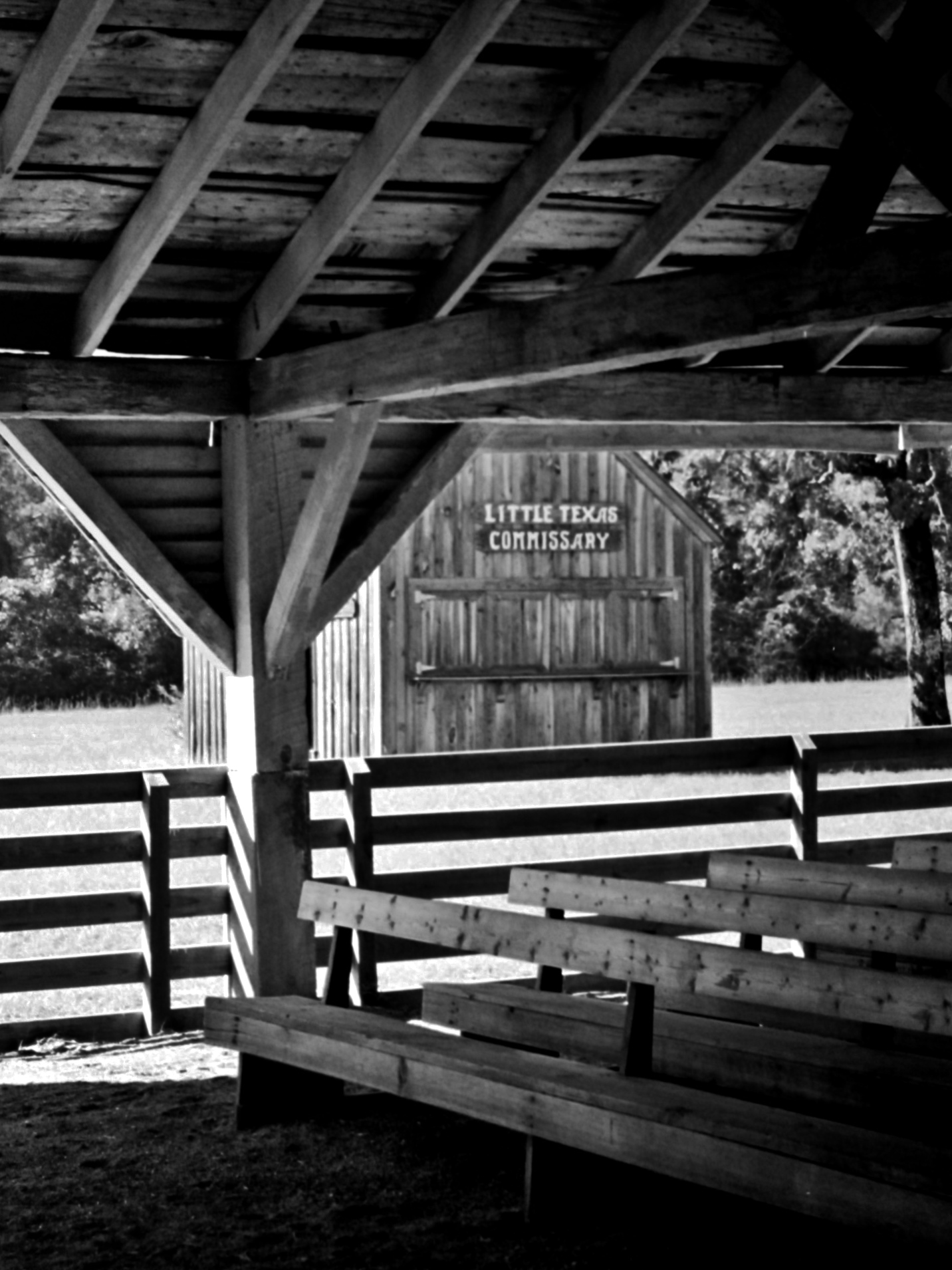 This is a high resolution scan of a silver gelatin print photograph that I took in 2001 of the Little Texas Methodist Tabernacle and Campground. The Tabernacle was built by black and white settlers of the area. It has been the site of camp meetings since the 1850s.